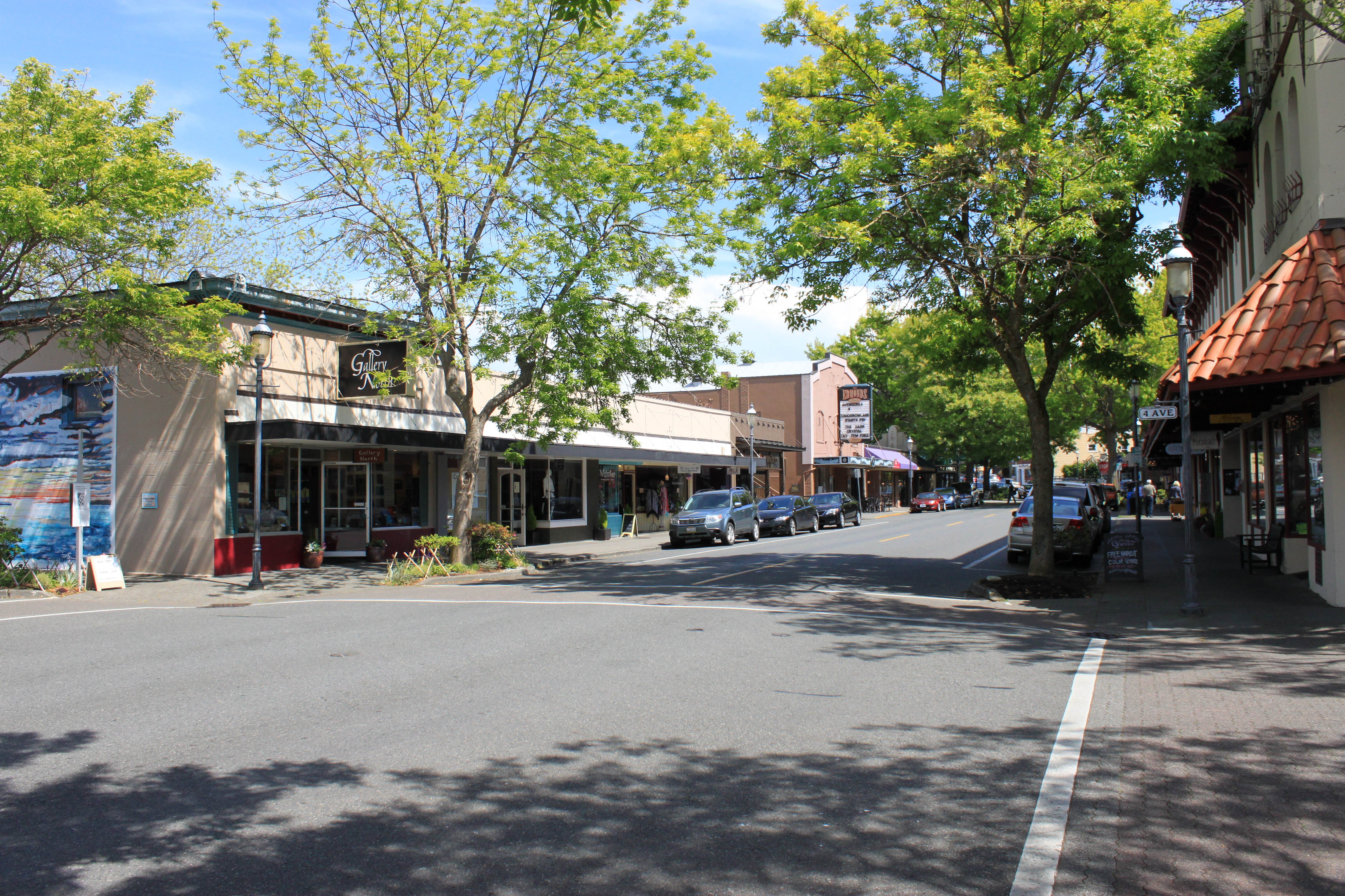 Looking east on Main Street from 4th Avenue, in downtown Edmonds, Washington.